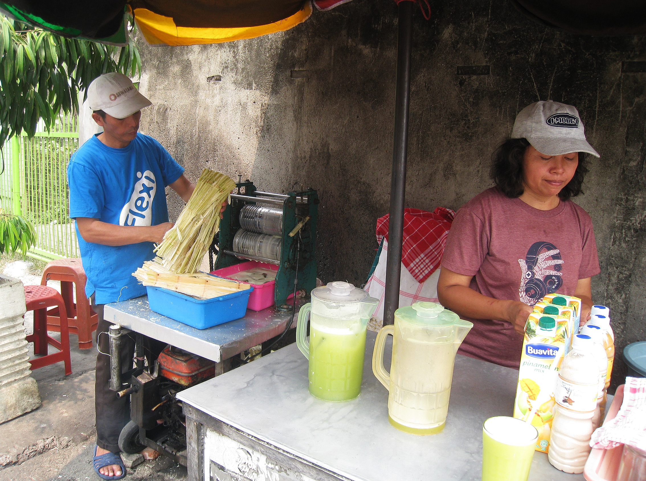 Es air tebu (sugarcane juice) seller at street side of Jalan Percetakan Negara, Central Jakarta, Indonesia.